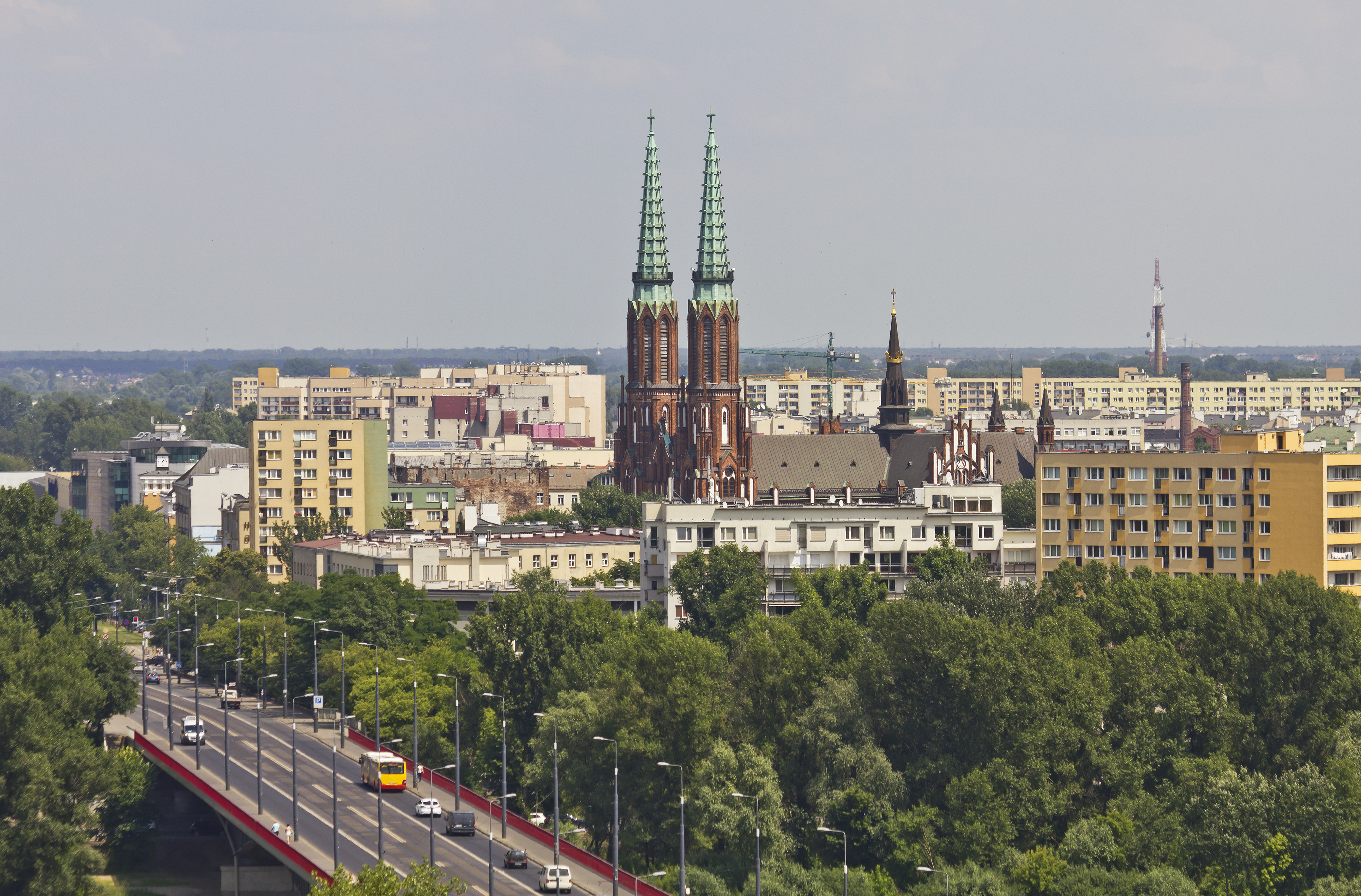 View from the St. Anne Church tower at Castle Square in the Old Town (Stare Miasto) in Warsaw (Poland). Saint Florian Church.